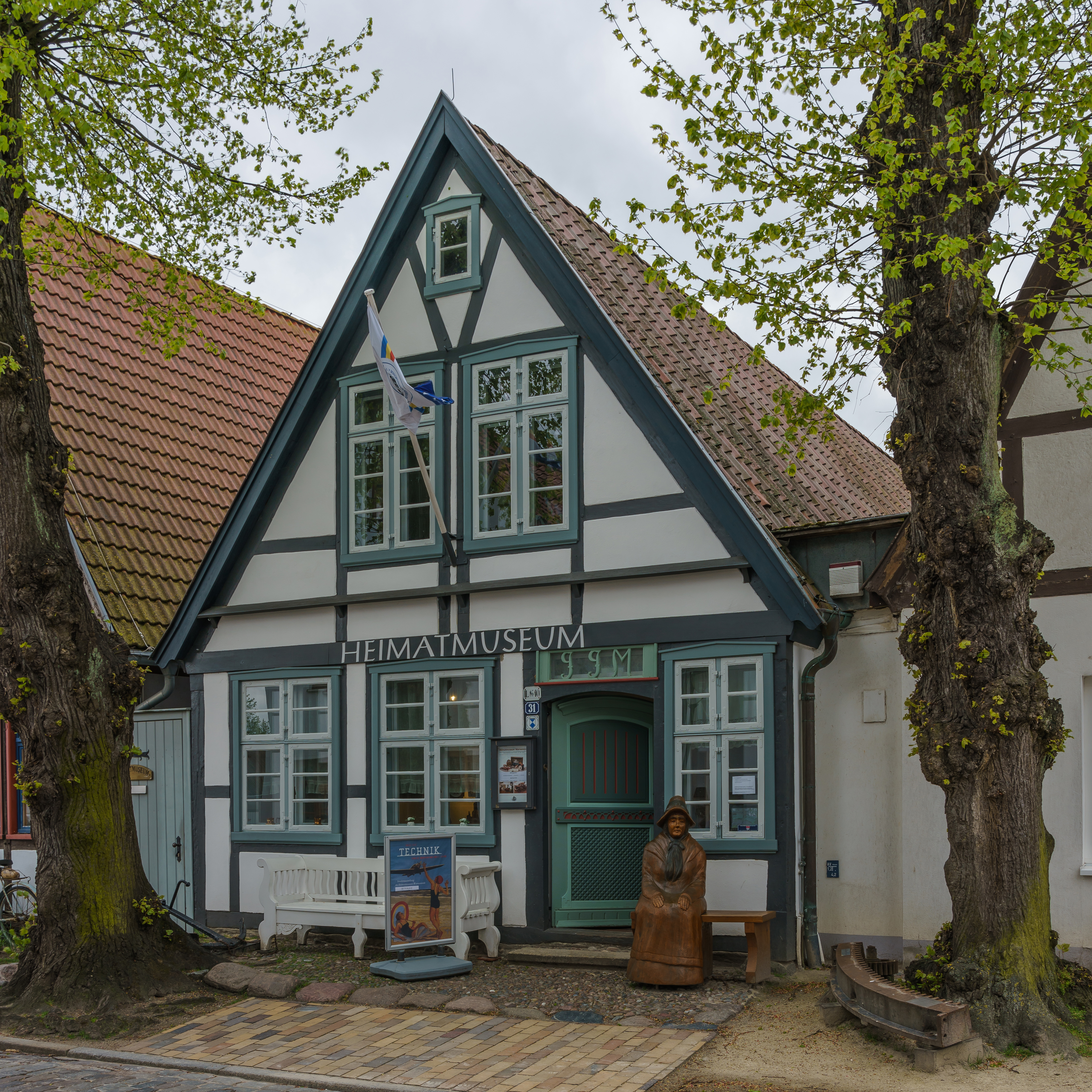 Local Museum in Warnemünde, Rostock, Germany